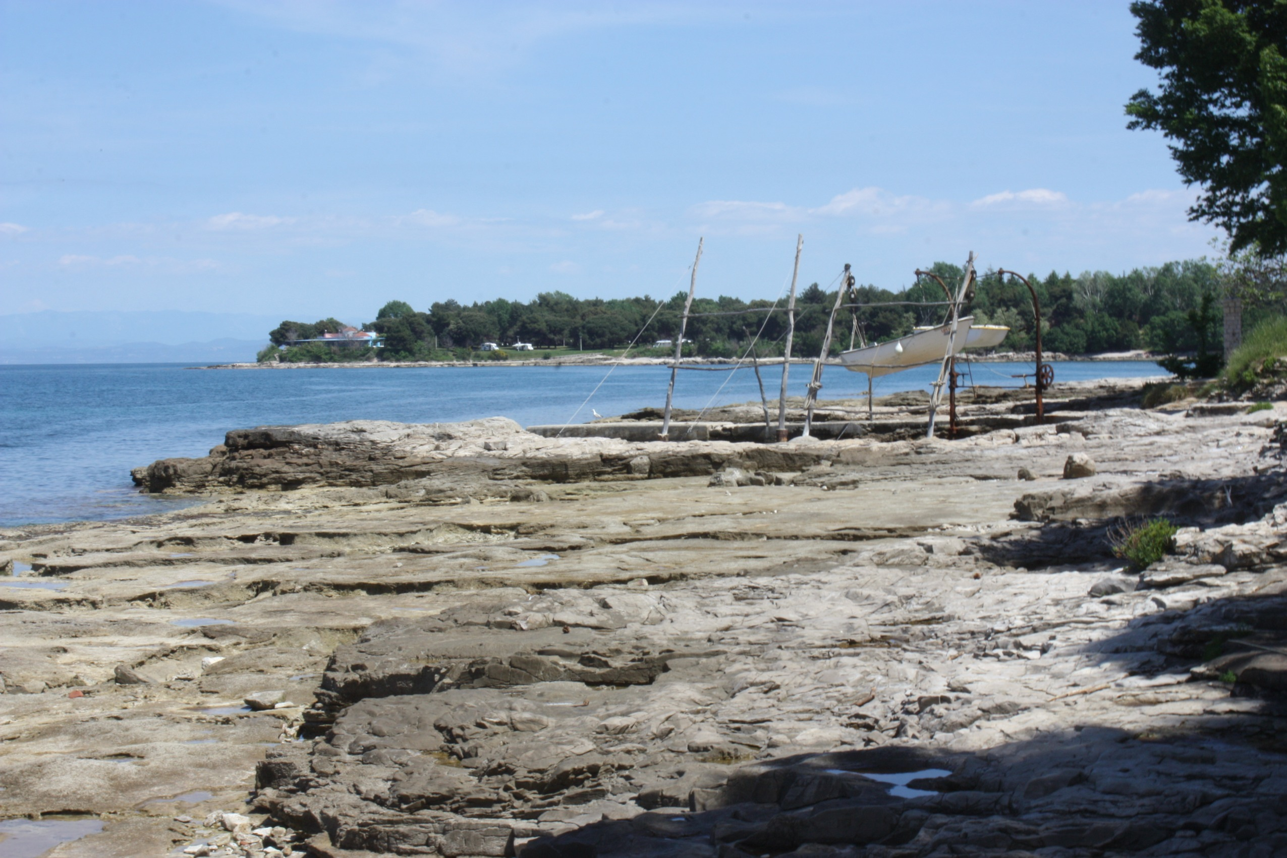 Savudrija (Umag), boats on the shore